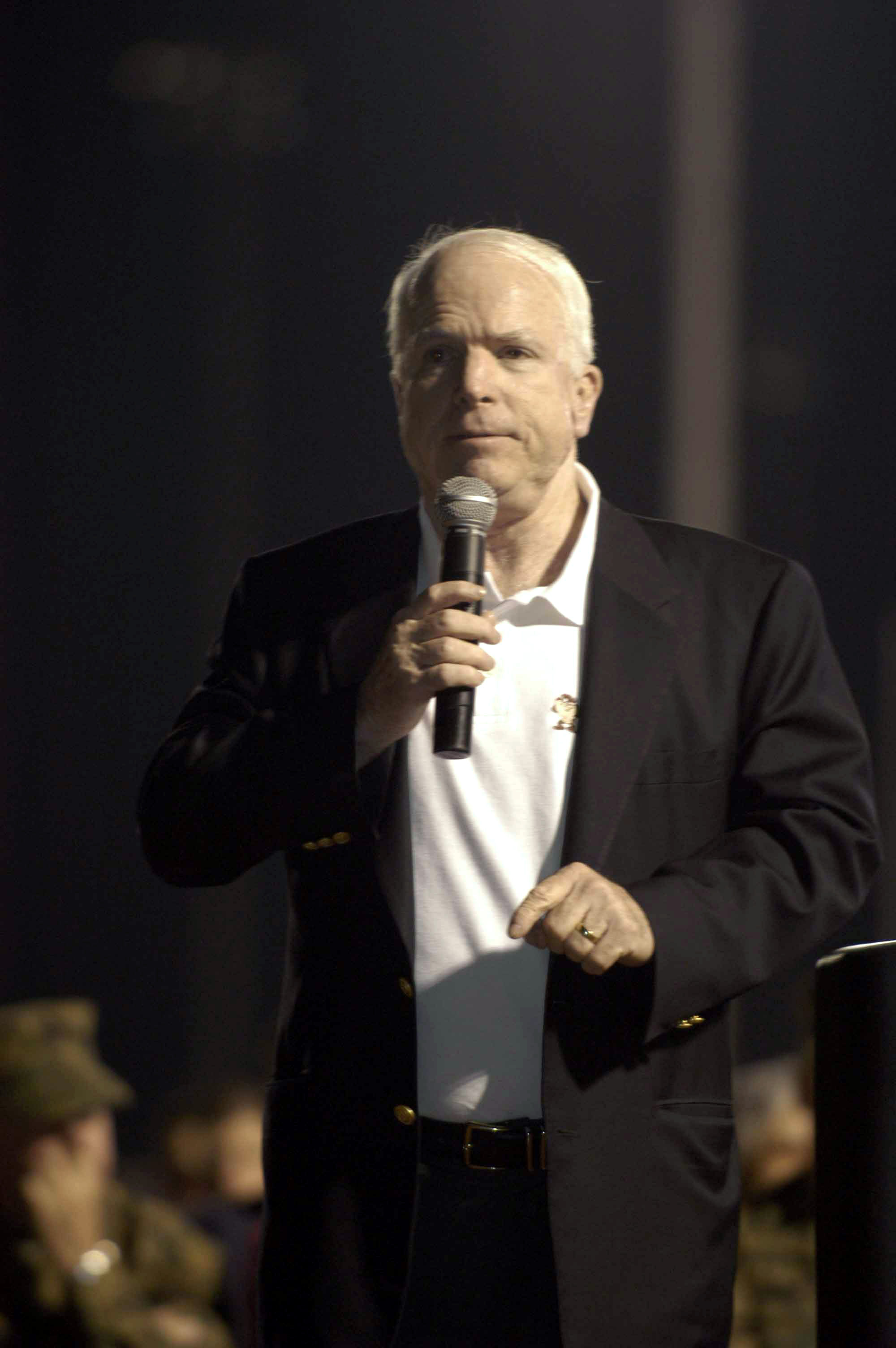 Senator John McCain, Republican, from Arizona, speaks to the citizens of Yuma, during the "Warrior Welcome Home Celebration" held at the Ray Kroc Baseball Stadium. Location: MARINE CORPS AIR STATION, YUMA, ARIZONA (AZ) UNITED STATES OF AMERICA (USA)